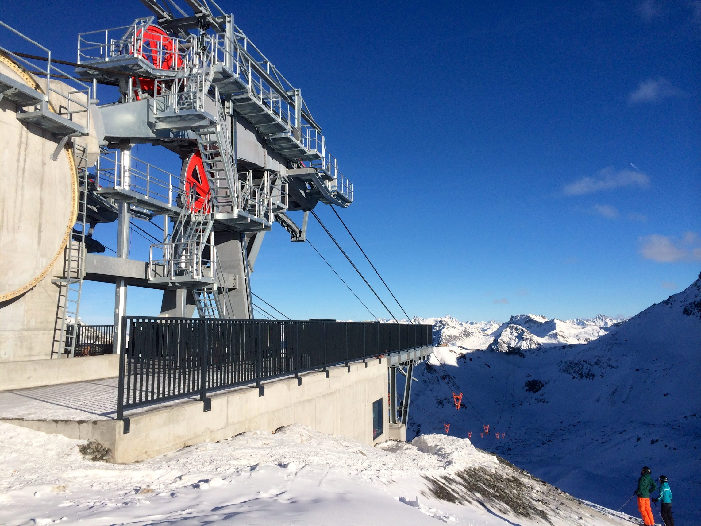 Western station of aerial lift "Urdenbahn" at Urdenfürggli, between Arosa and Lenzerheide/Switzerland